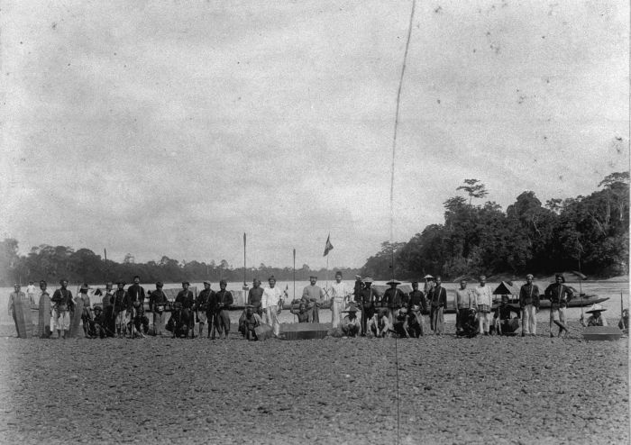 Dutch controler (civil servant) J.P.J. Barth with his suite during the administrative consolidation in the Dayak region on the Upper-Mahakam in Central-Borneo.